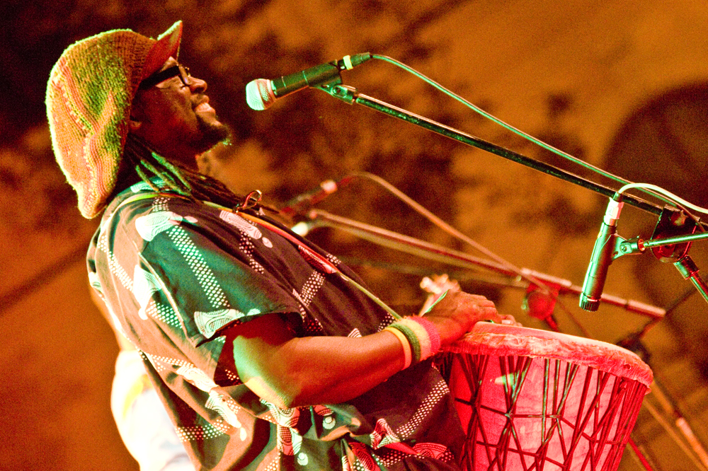 Mamadou Diouf from Senegal performing at The Street Party in Warszawa, Poland in August 2011.